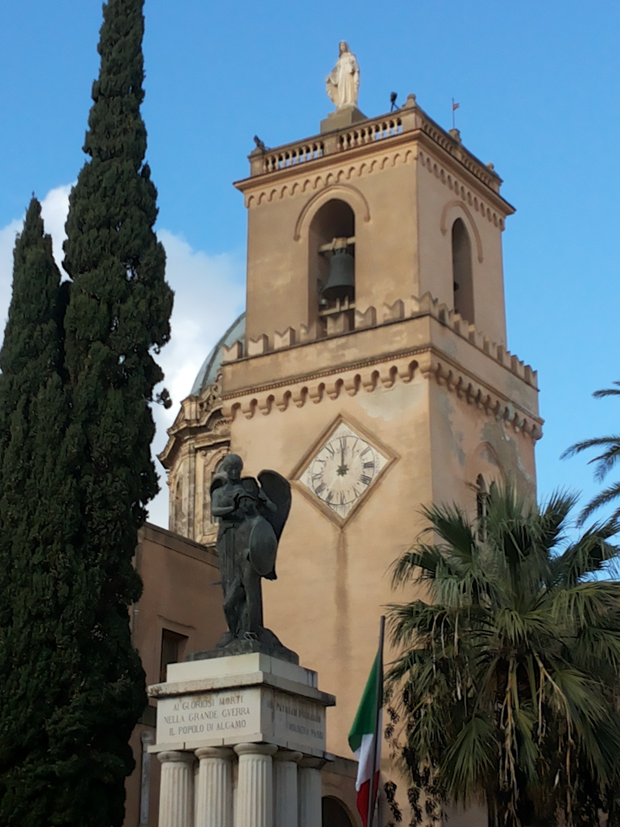 Chiesa Santa Maria Assunta (Alcamo) - Campanile